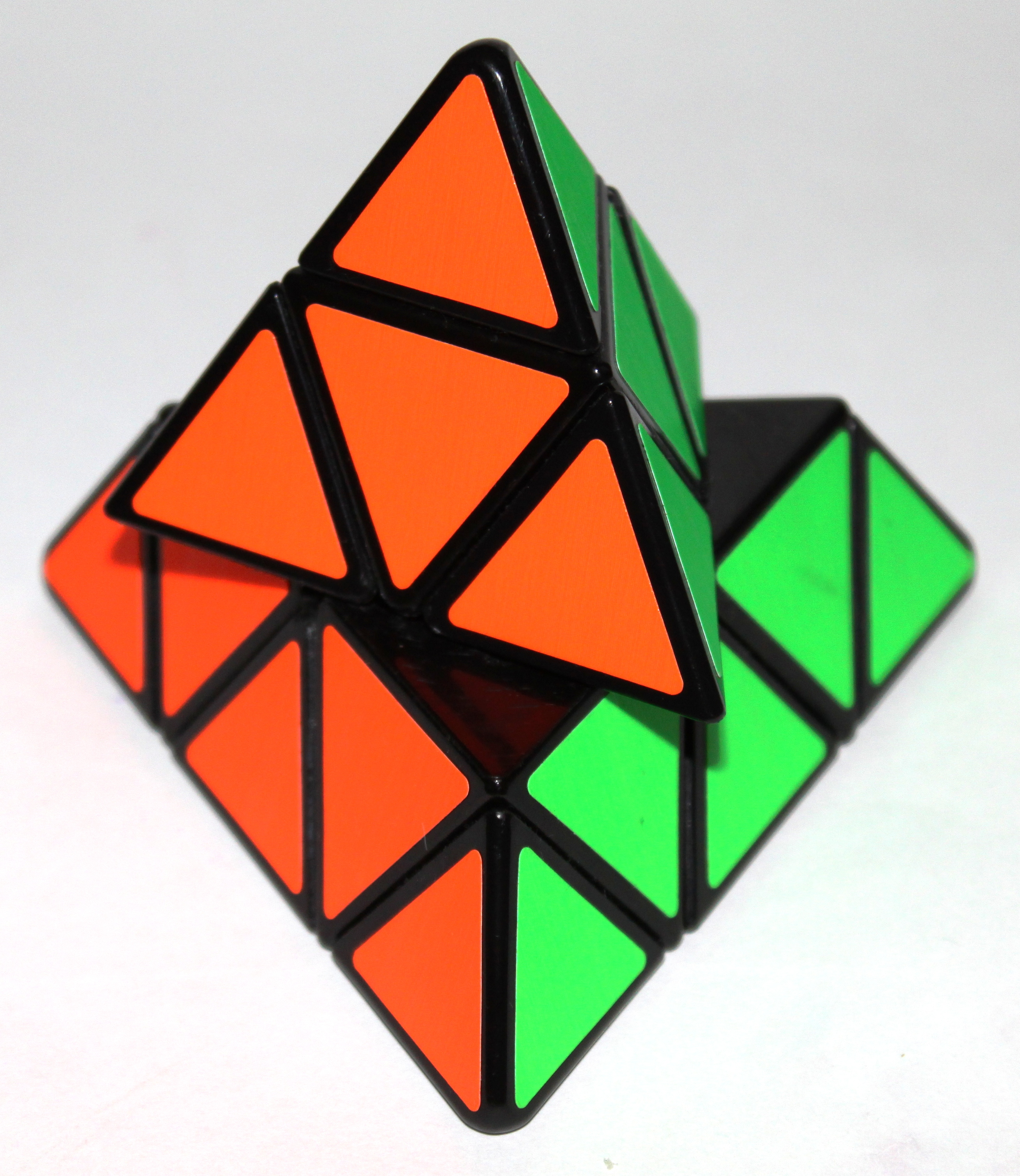 This is a photo of a "Rubiks cube"-like sequential move puzzle.